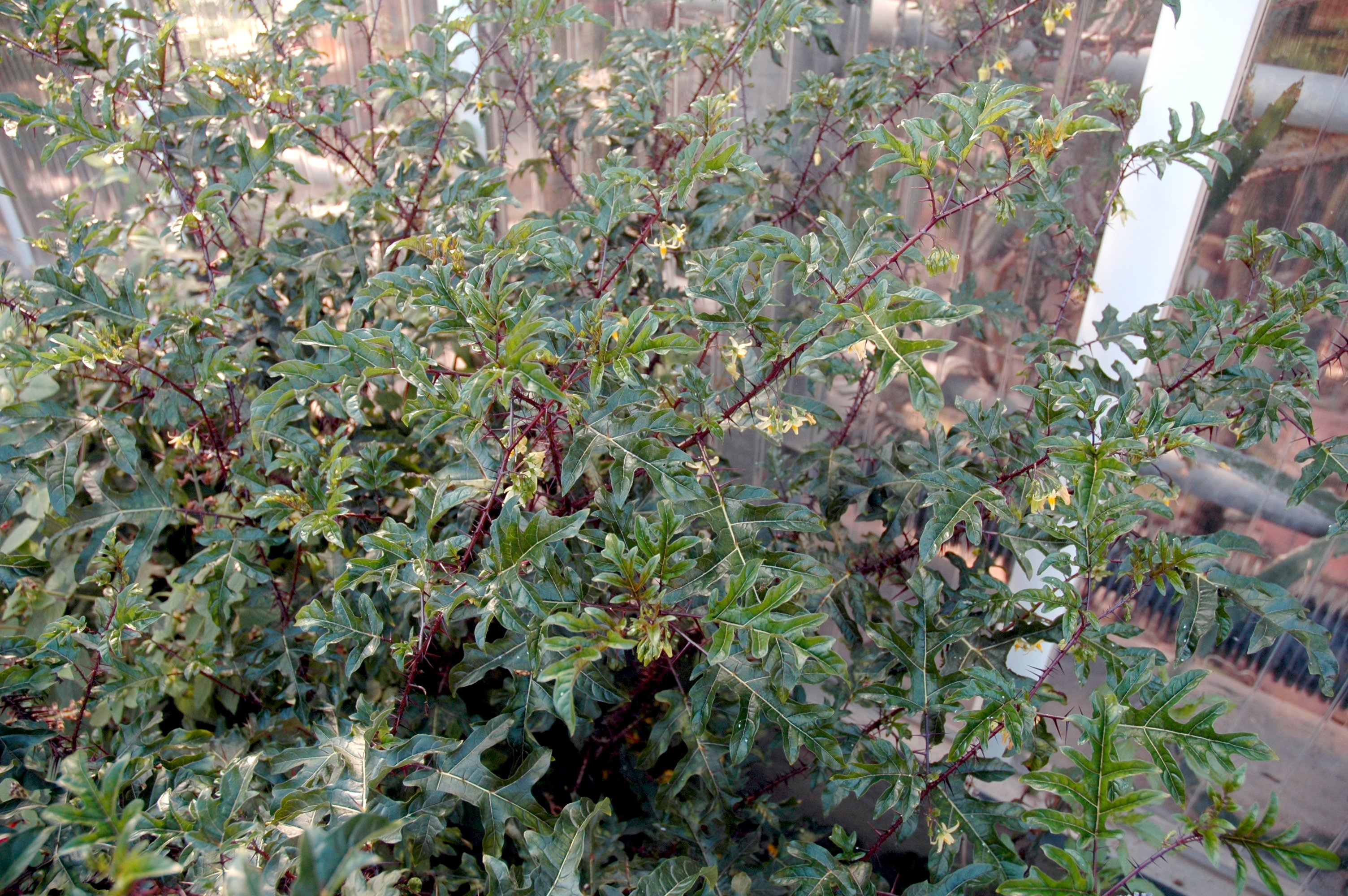 Habit of Solanum atropurpureum (Solanaceae) at Jena Botanical Garden, Germany